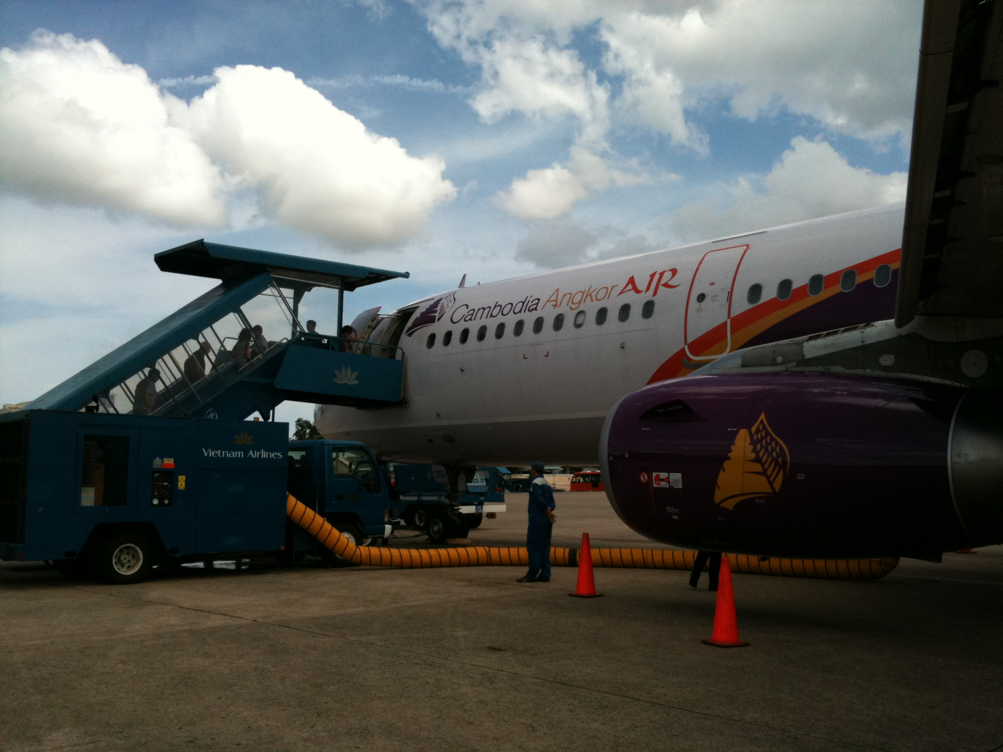 A Cambodia Angkor Air Airbus A321 (registration VN-A351) refuelling at Da Nang Airport.